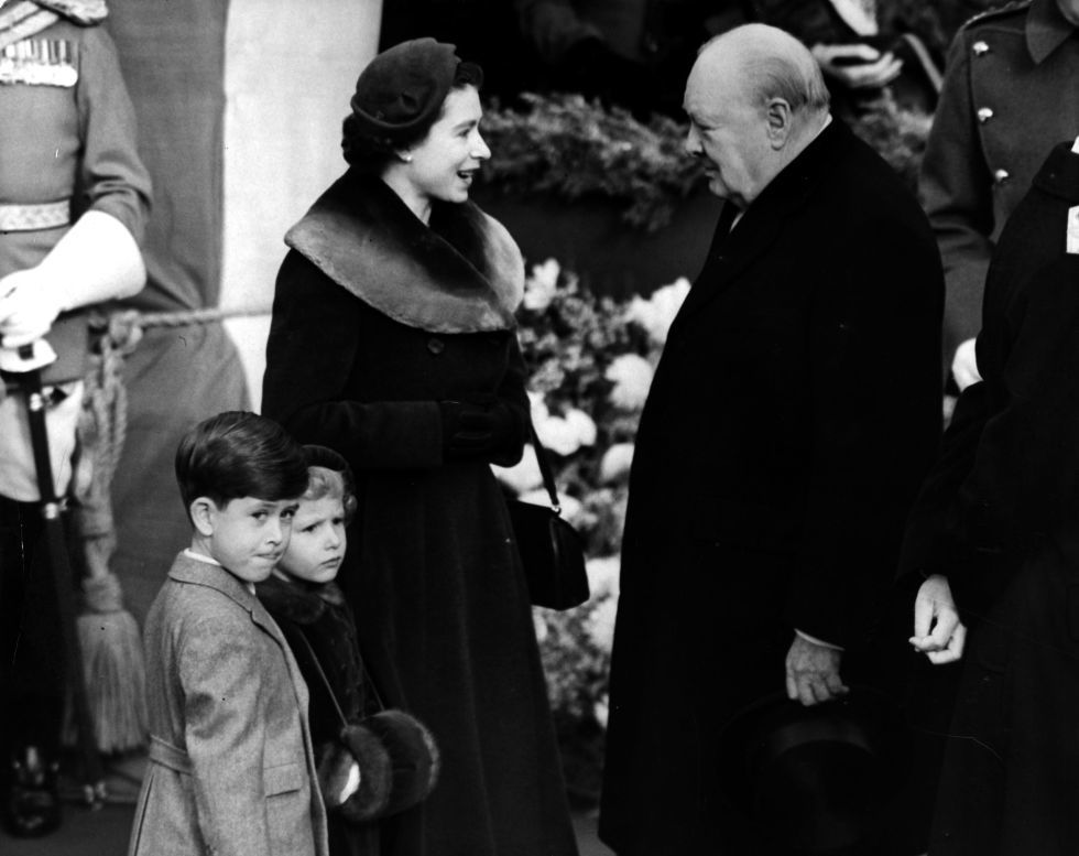 Winston Churchill with Queen Elizabeth in 1953